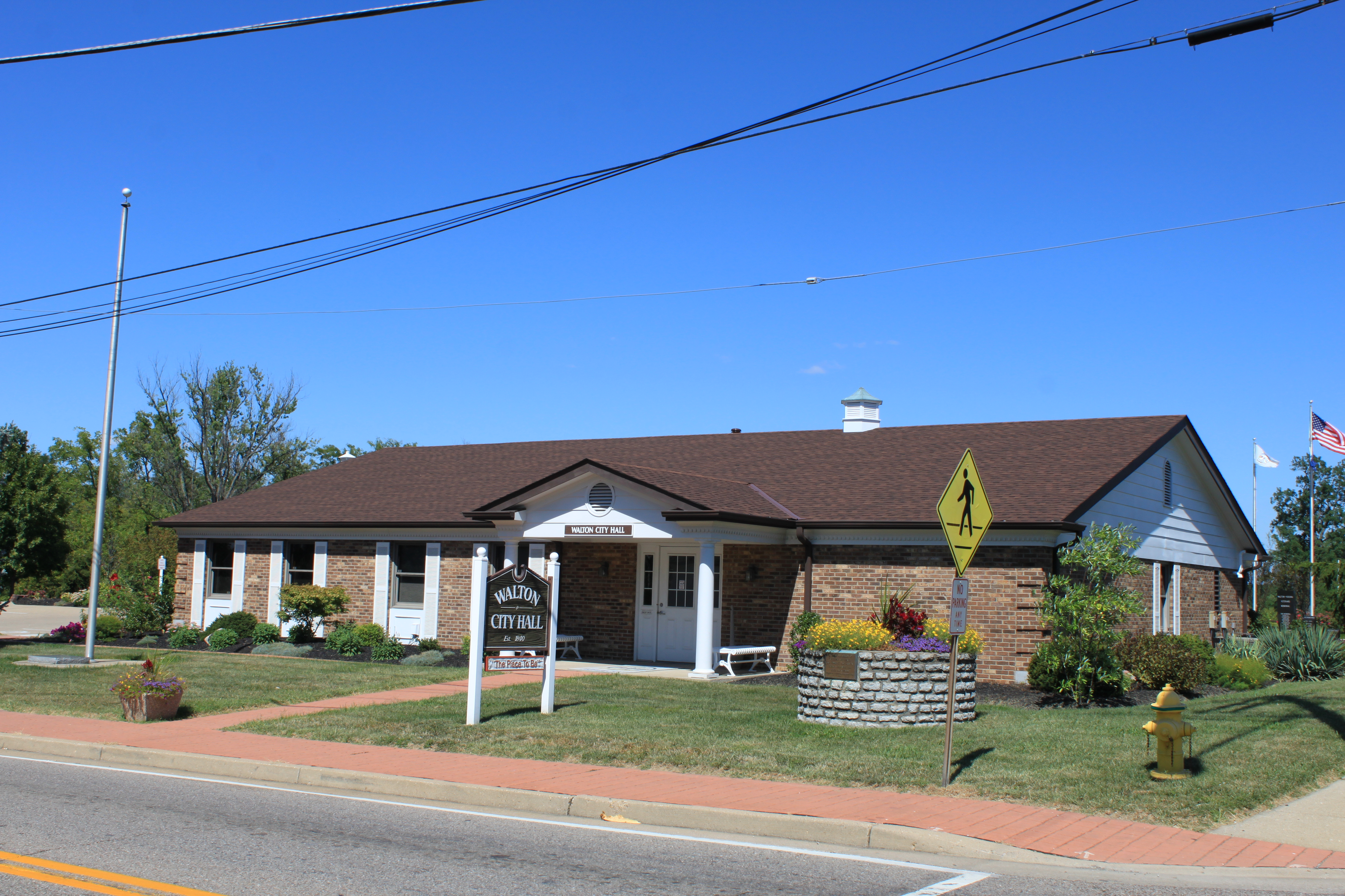 Walton Kentucky City Hall, 40 North Main Street.